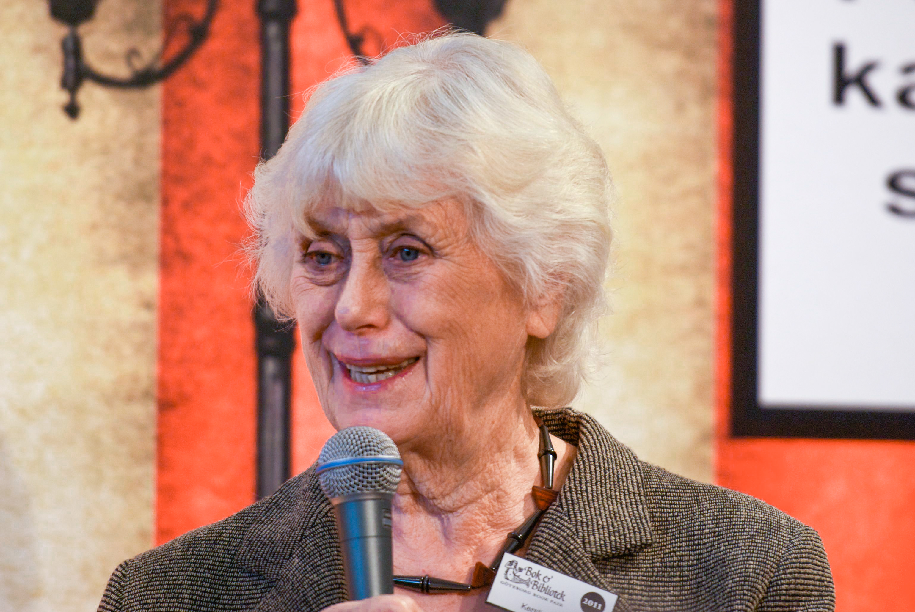 Swedish writer Kerstin Ekman at Göteborg Book Fair 2011.